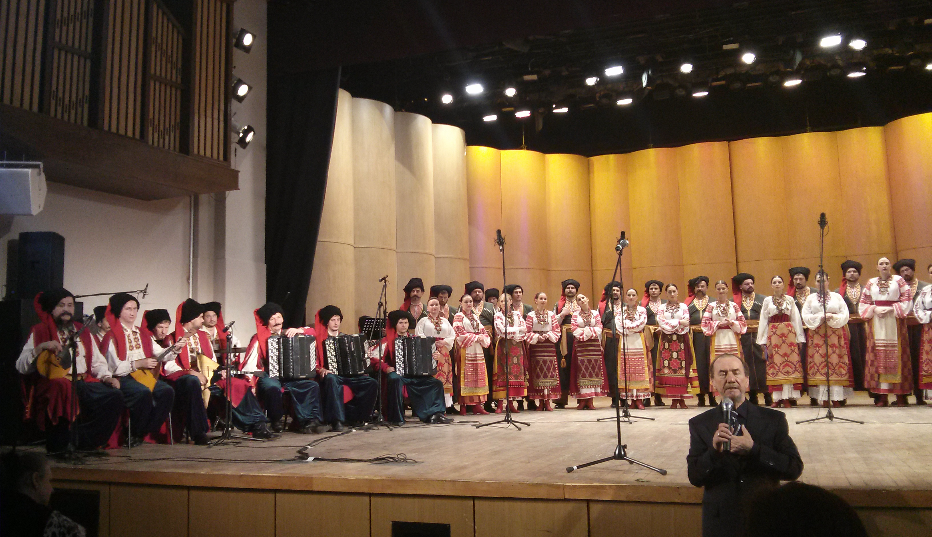 Kuban Cossack Choir at Gnessin Russian Academy of Music in Moscow, directed by Viktor Gavrilovich Zakharchenko.